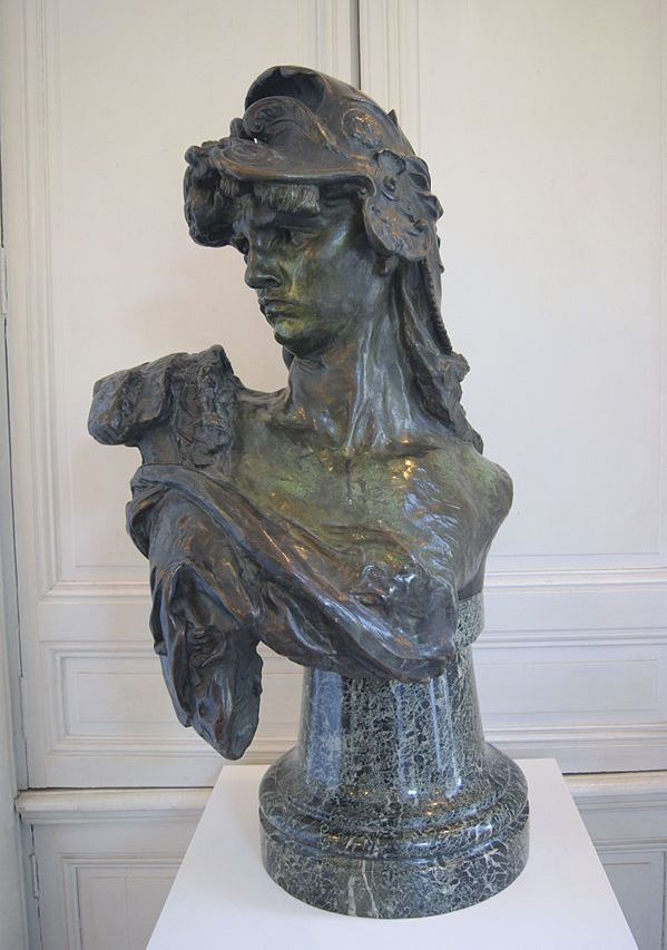 Auguste Rodin’s 1879 bronze bust of Bellona, the Roman war goddess: modelled on his mistress Rose Beuret when in a bad temper, the head turned in dynamic movement and drawn back in a gesture of anger and pride with the tendons of the neck straining, . Now in the Musée Rodin, Paris